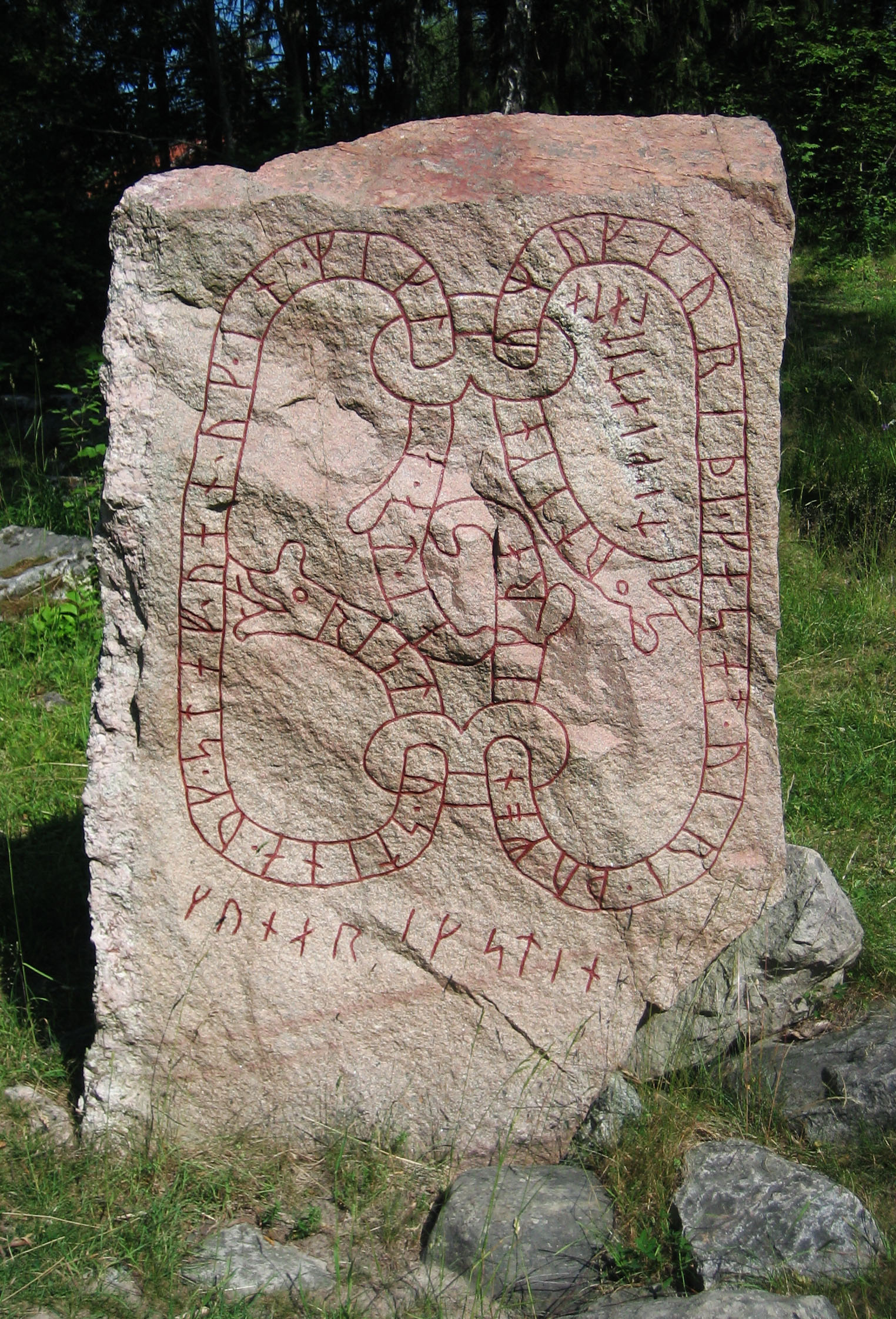 The runestone U 226 at Arkils tingstad, Bällsta, Täby in Sweden. Photo by the uploader.